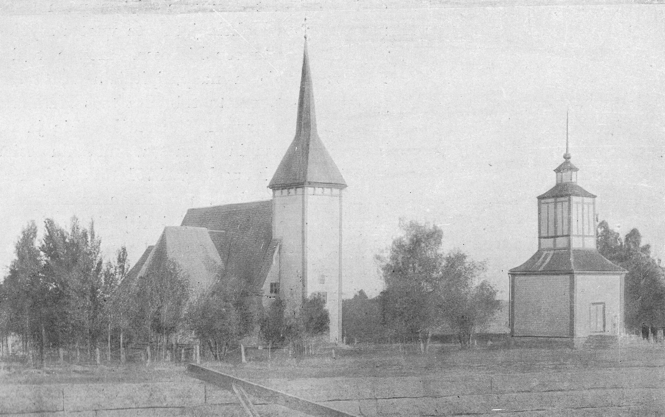 Former church of Alahärmä was built in 1752 and it was destroyed in a fire in 1898. The church was designed by Antti Hakola. The belltower in the picture is older than the church.